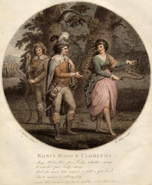 Robin Hood & Clorinda William Blake after John Meheux 1783